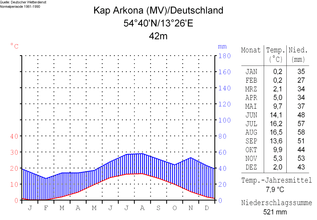 climate chart in the format by Walter and Lieth, metric, °Celsisus and millimeters, made with Geoklima 2.1